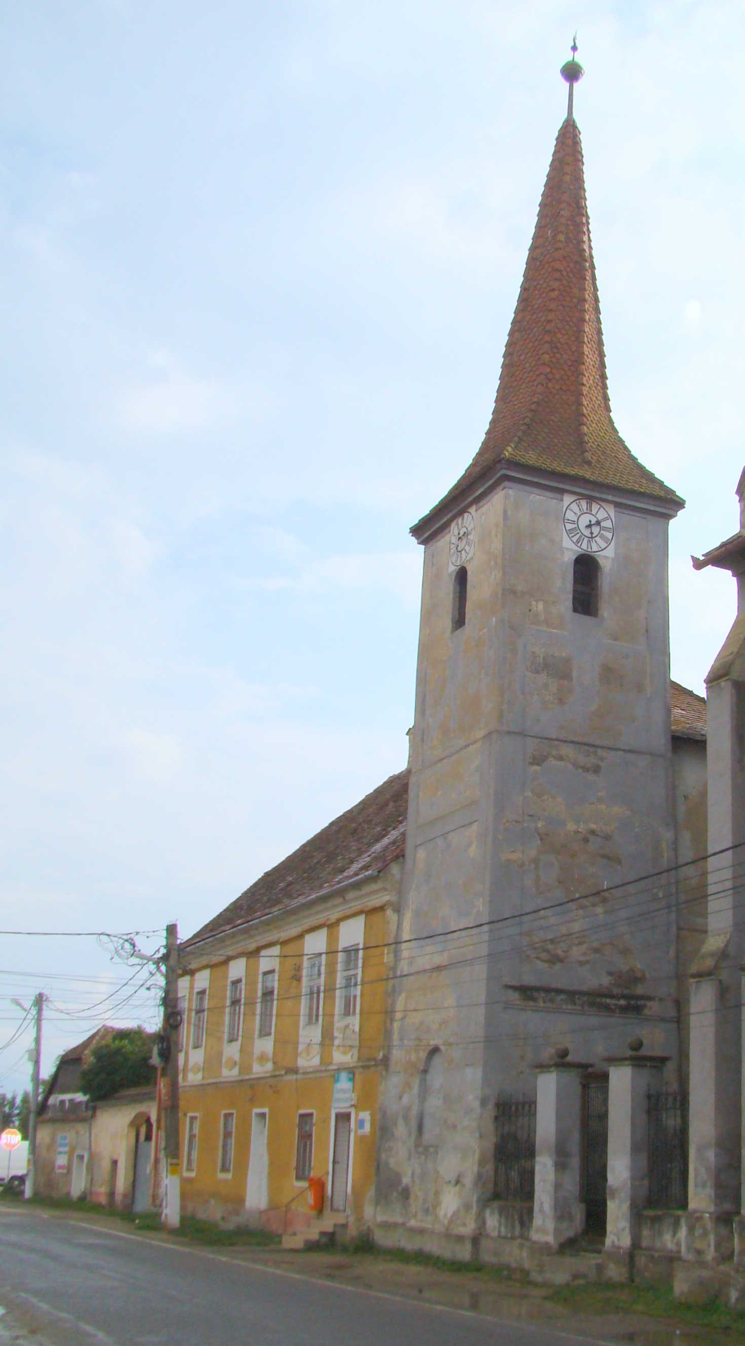 Lutheran parish house in Șercaia, Brașov County, Romania